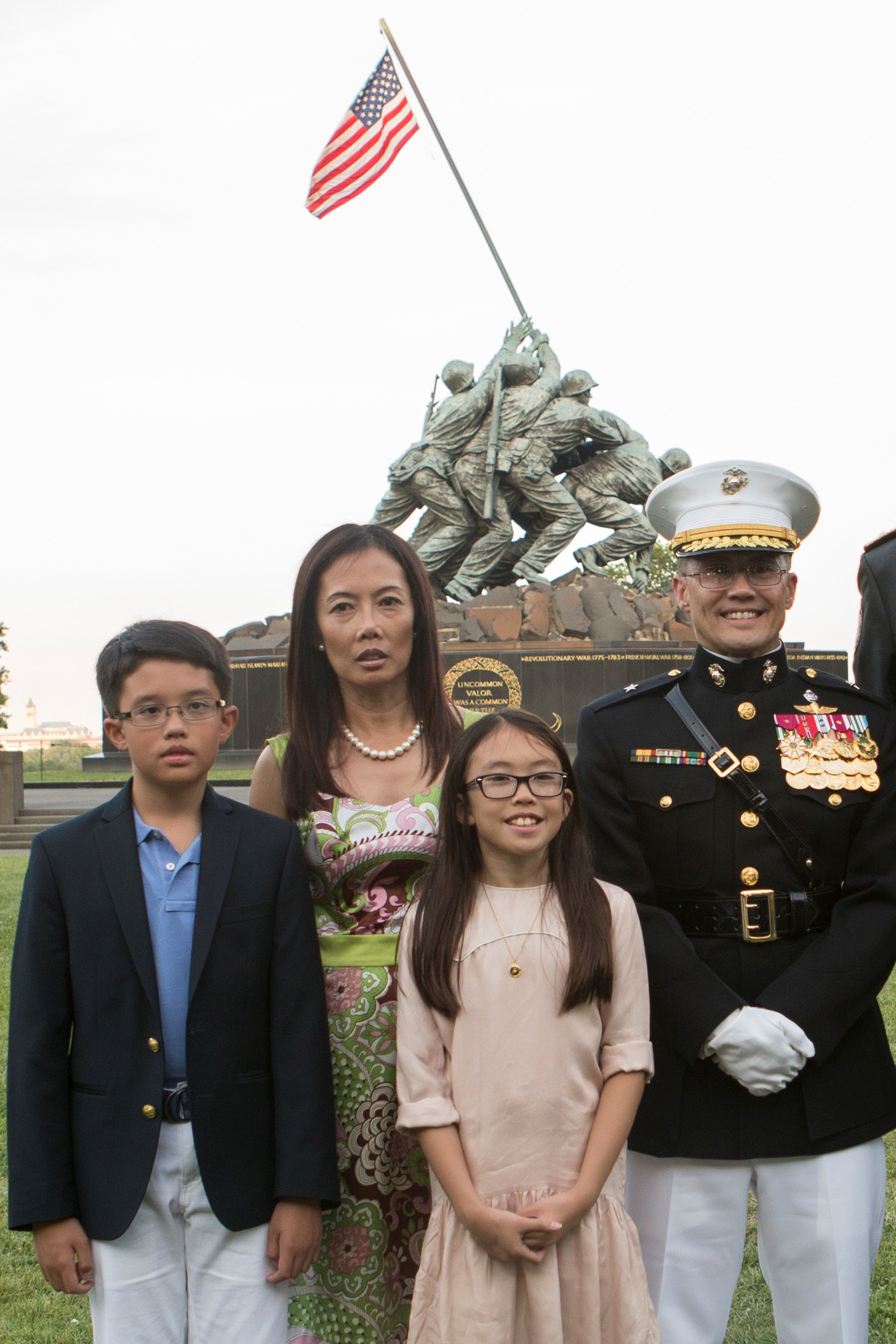 U.S. Marine Corps Brig. Gen. William H. Seely, director, Office of Marine Corps Communication, center, poses for a photo with his wife, Nhung Ho Seely, and children after a sunset parade at the Marine Corps War Memorial, Arlington, Va., June 20, 2017. Sunset parades are held as a means of honoring senior officials, distinguished citizens and supporters of the Marine Corps. (U.S. Marine Corps photo by Lance Cpl. Stephon L. McRae)